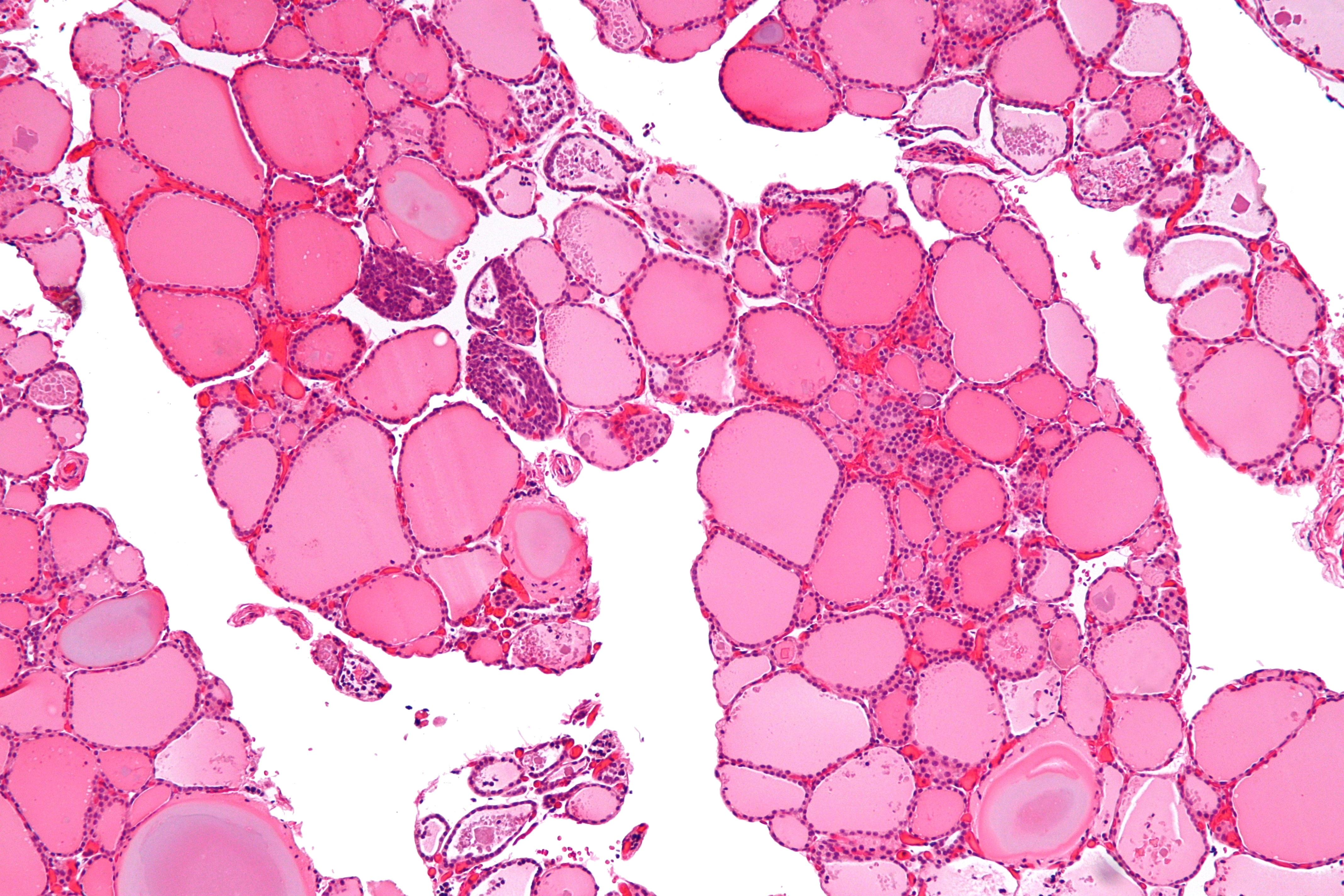 Intermediate magnification micrograph of a solid cell nest of the thyroid gland. H&E stain. Solid cell nests may be solid or cystic.[1] Related images Intermed. mag. High mag. Very high mag. References ↑ (Feb 1994). "Solid cell nests of the thyroid. A histologic and immunohistochemical study.". Am J Clin Pathol 101 (2): 186-91.